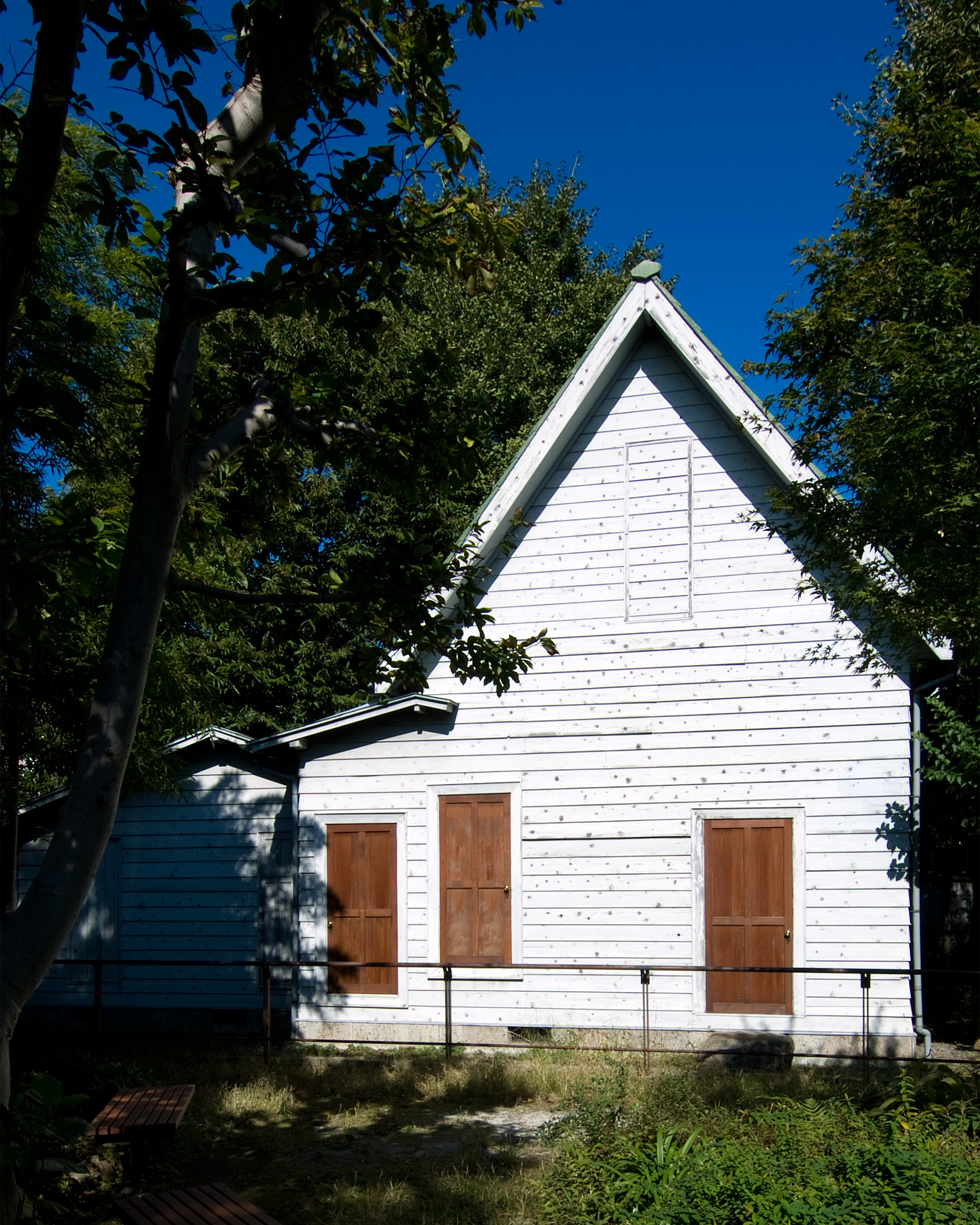 Old Atrier of Yuzo Saeki (Saeki Park), at Mejiro Tokyo Japan.